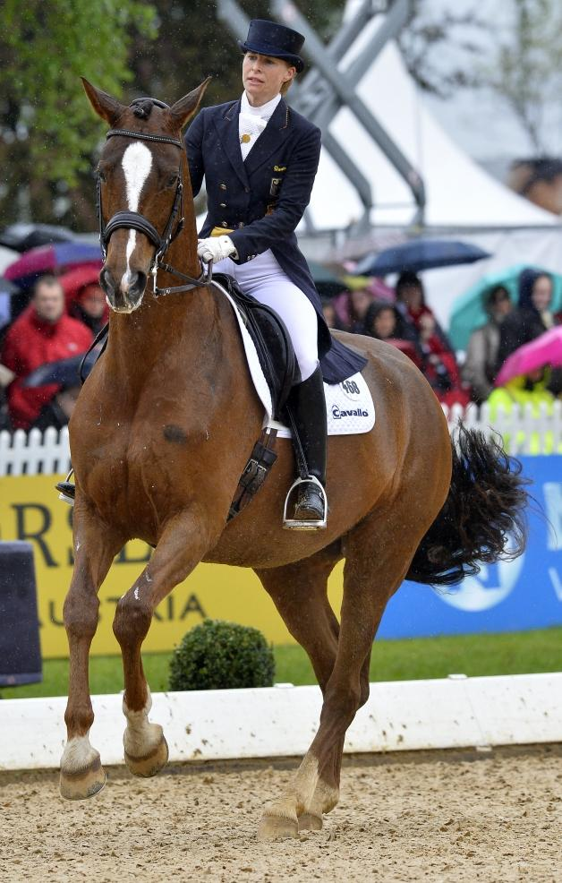 Nadine Capellmann riding Girasol, Grand Prix Freestyle at the CDI 5* München-Riem 2013